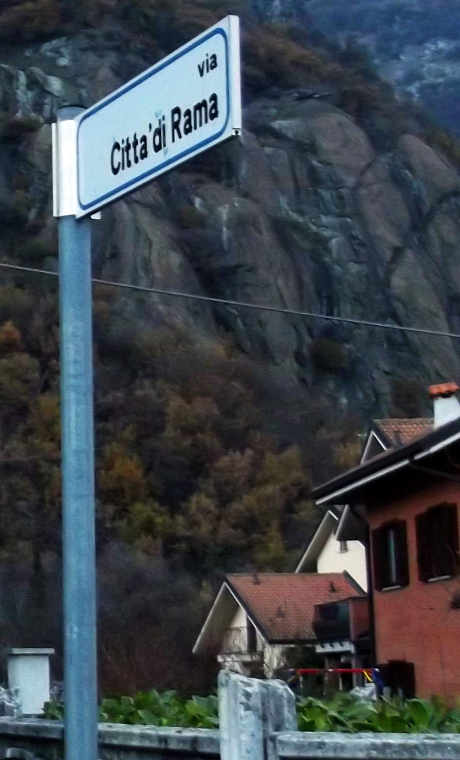 Carpie (TO, Italy): Città di Rama street